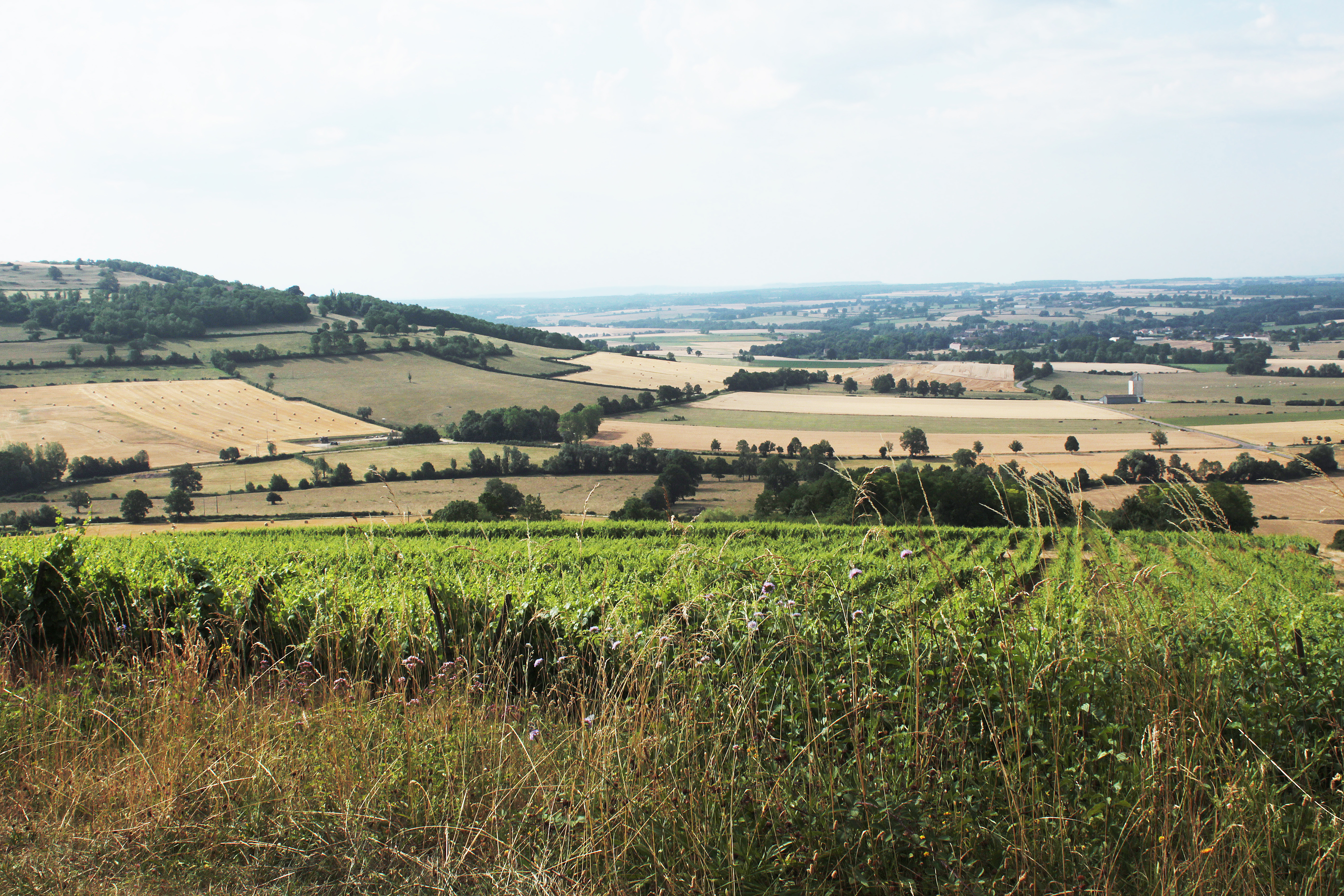 Viserny vineyards, Armançon valley and Cra mount (434m)